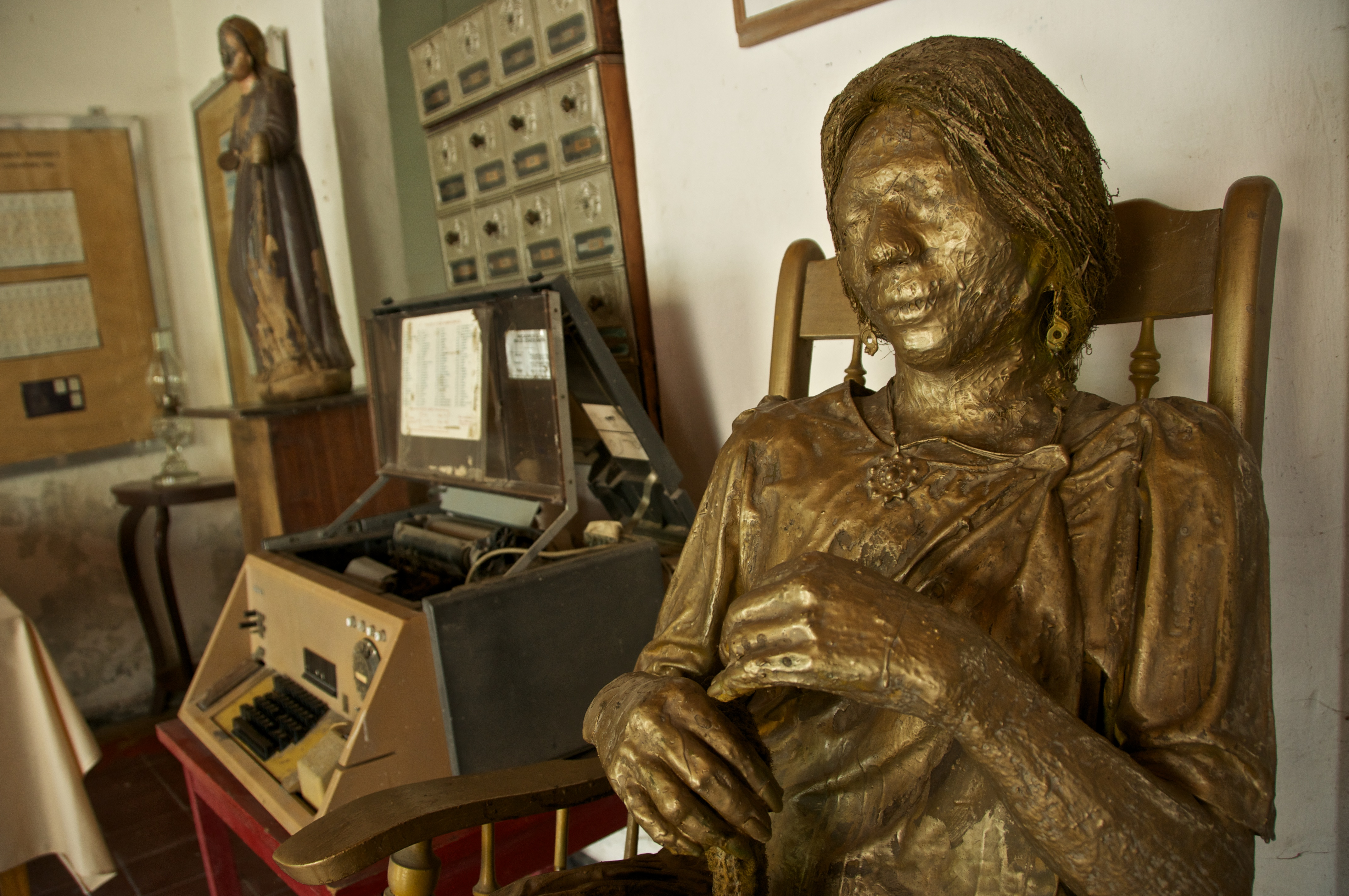 Inside the house of the Telegrafist